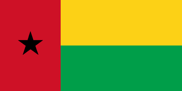 Guinea-Bissau flag 300px height, unified for the national flags serie, borders removed, high compression ratio, some color or ratio corrections from